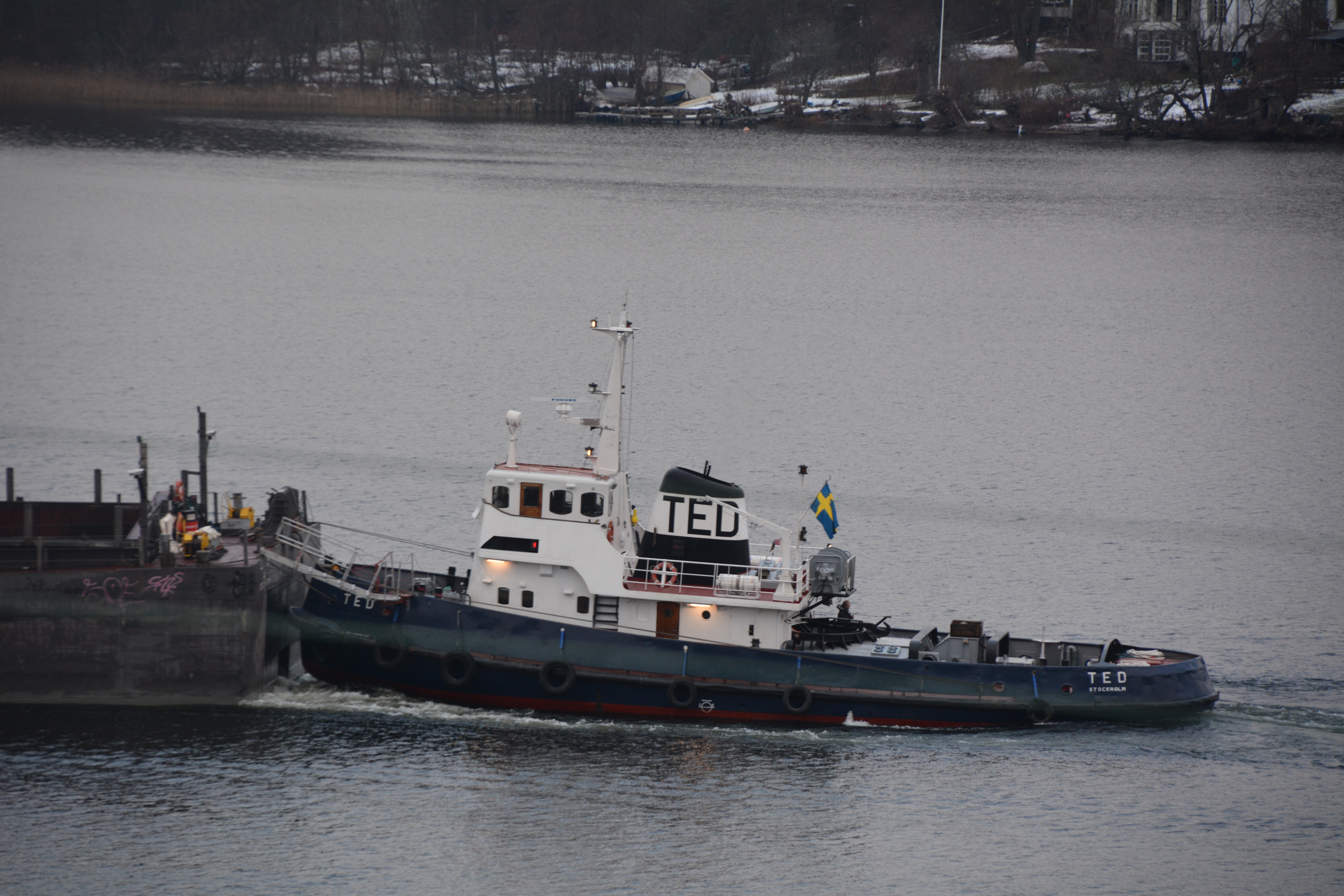 Tug "Ted" in Stockholm, Lake Mälaren